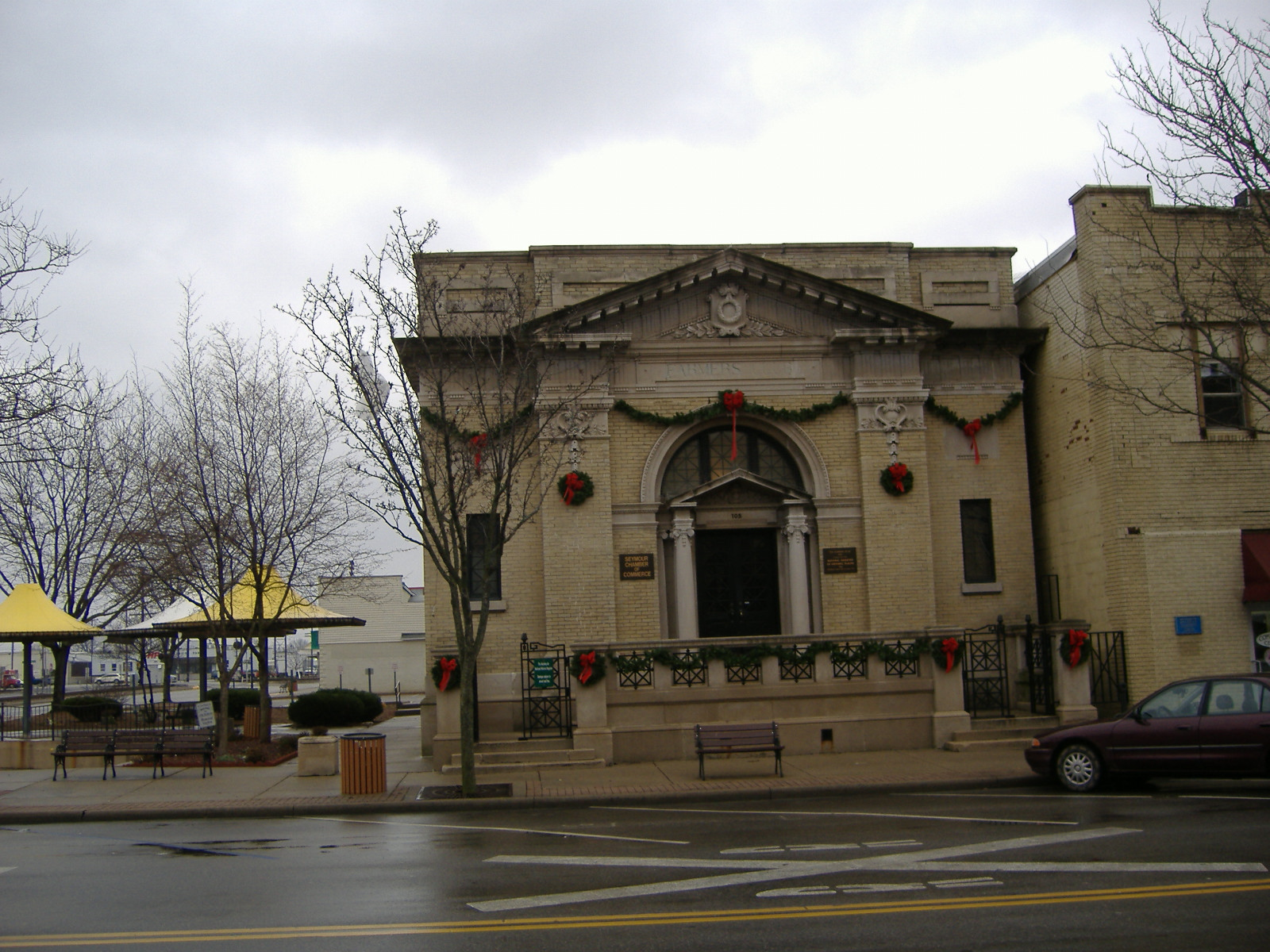 Front of the former Farmers Club, located at 105 S. Chestnut Street in Seymour, Indiana, United States. Built in 1914 and since converted into the local chamber of commerce headquarters, it is listed on the National Register of Historic Places, and it is part of a Register-listed historic district, the Seymour Commercial Historic District.